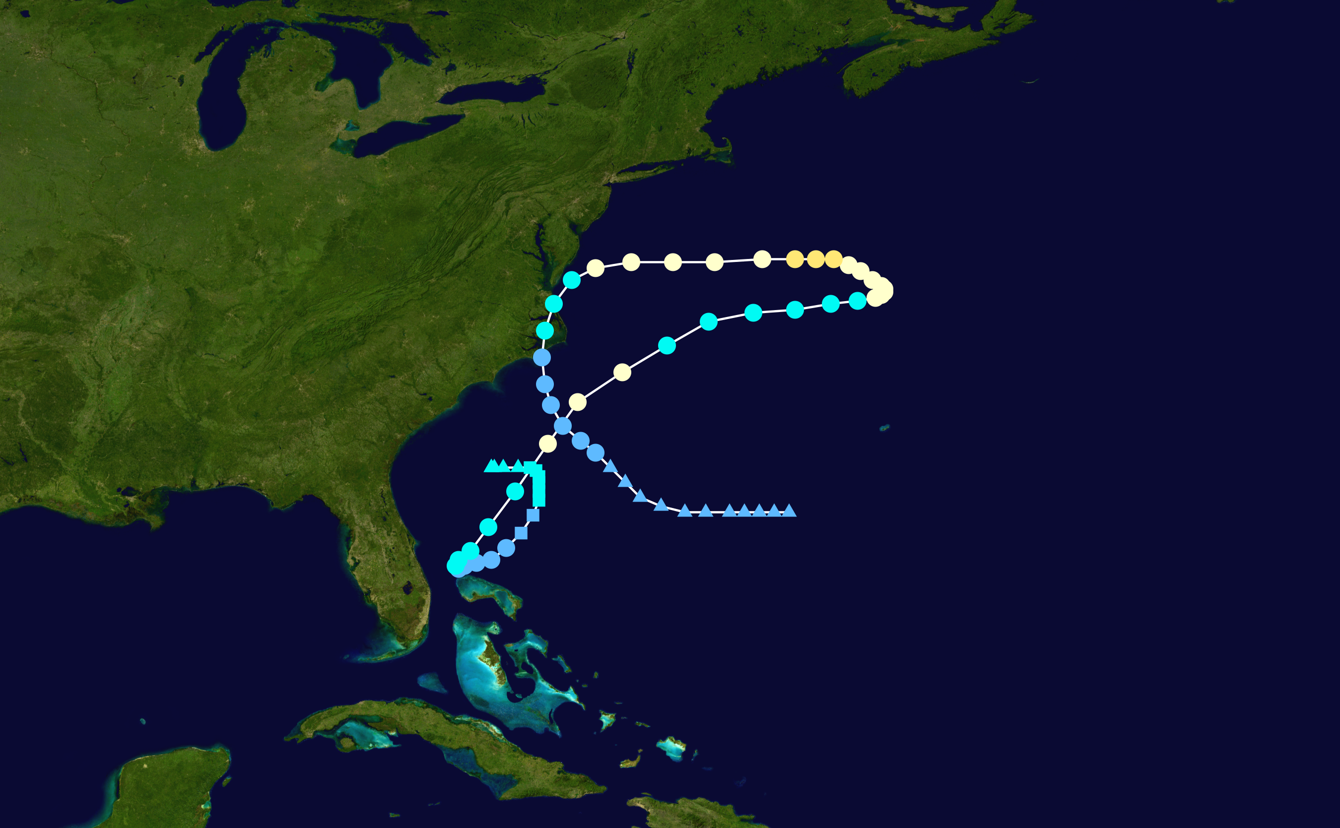 Hurricane Doria (1967) track. Uses the color scheme from the Saffir-Simpson Hurricane Scale.